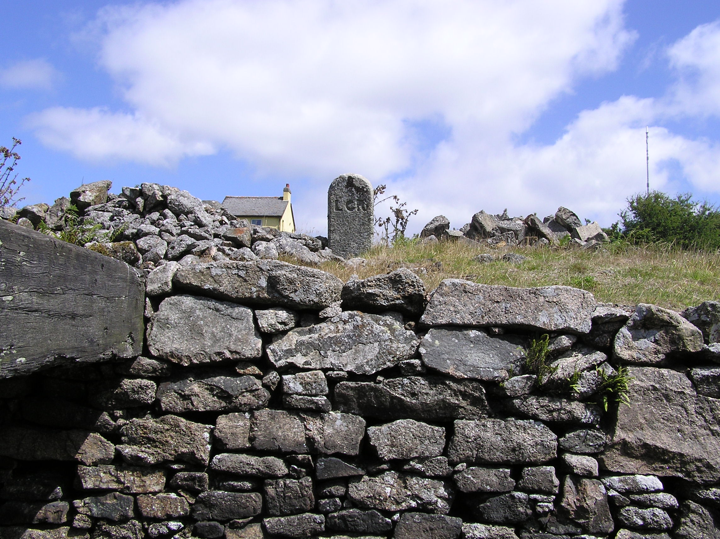 Boundary post of the Liskeard and Caradon Railway at Gonamena, Cornwall